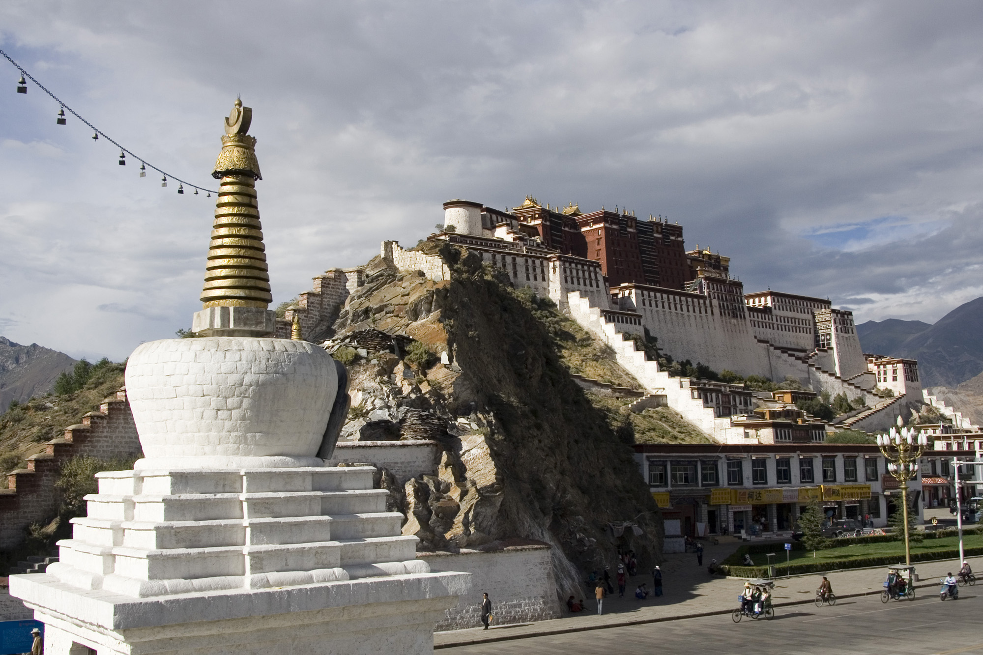 Potala Palace, Dalai Lama former residence.